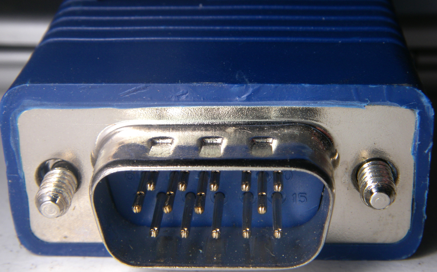 D-Sub connector (15 pin)